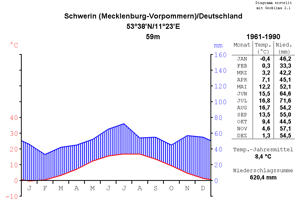 climate chart of Schwerin, Mecklenburg-Western Pomerania, Germany, for the period of time from 1961 to 1990, in the format by Walter and Lieth, metric, °Celsius and millimeters, chart made with Geoklima 2.1, label in German